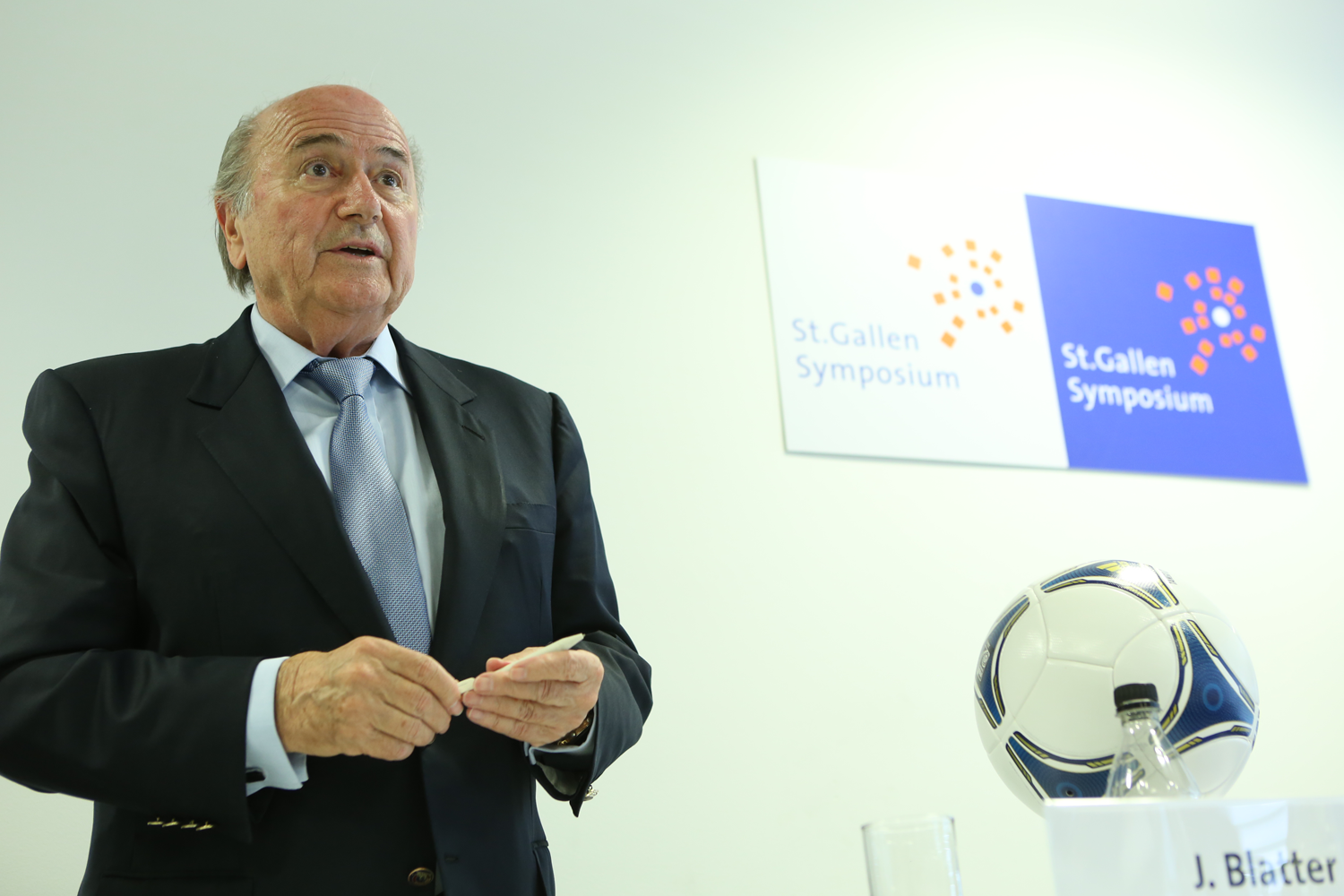 Sepp Blatter in May 2012 in a Work Session with Stephen Sackur at the 42. St. Gallen Symposium at the University of St. Gallen.